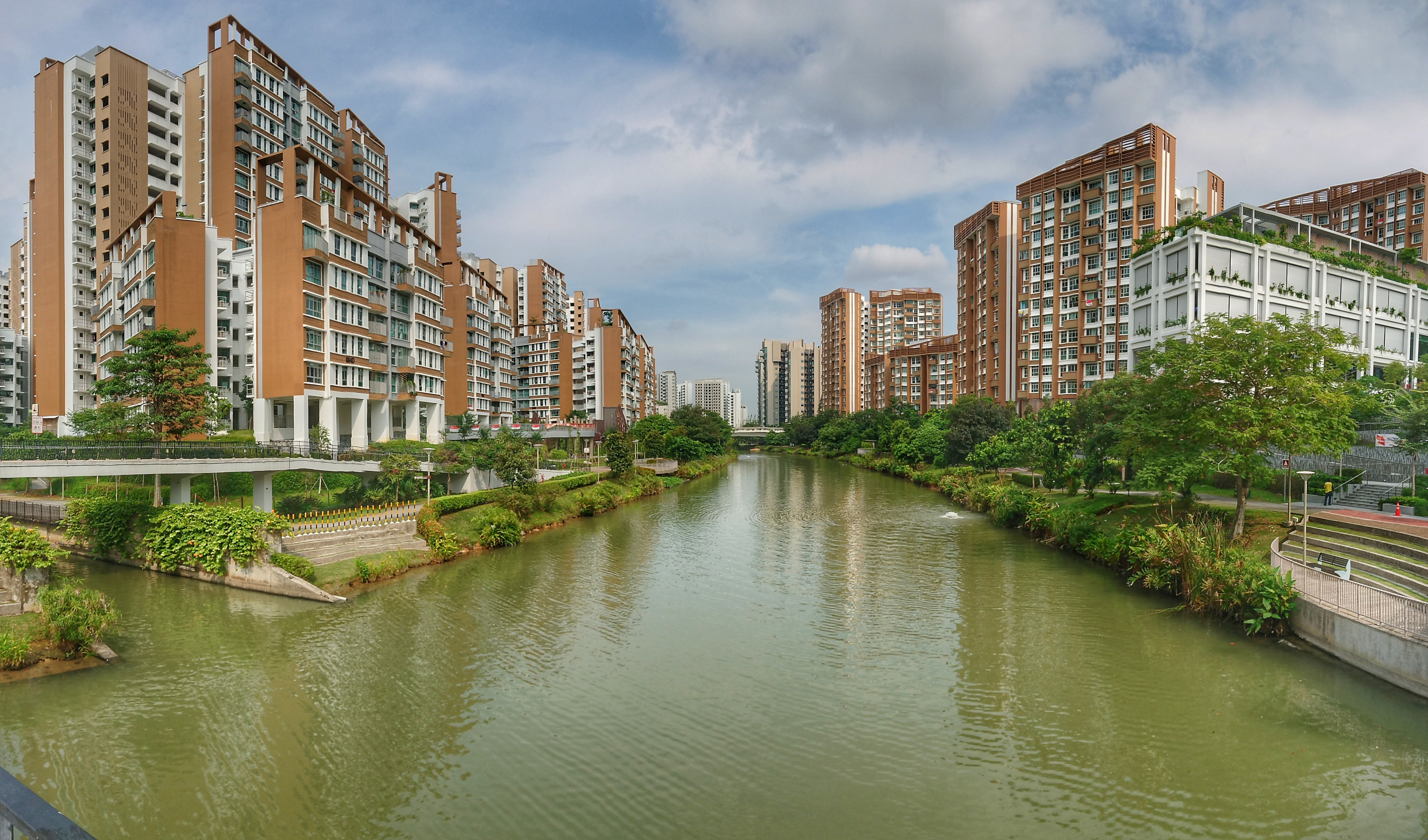 Panorama view of HDB at Punggol Waterway in 2018. Taken with Xperia XZ Premium.